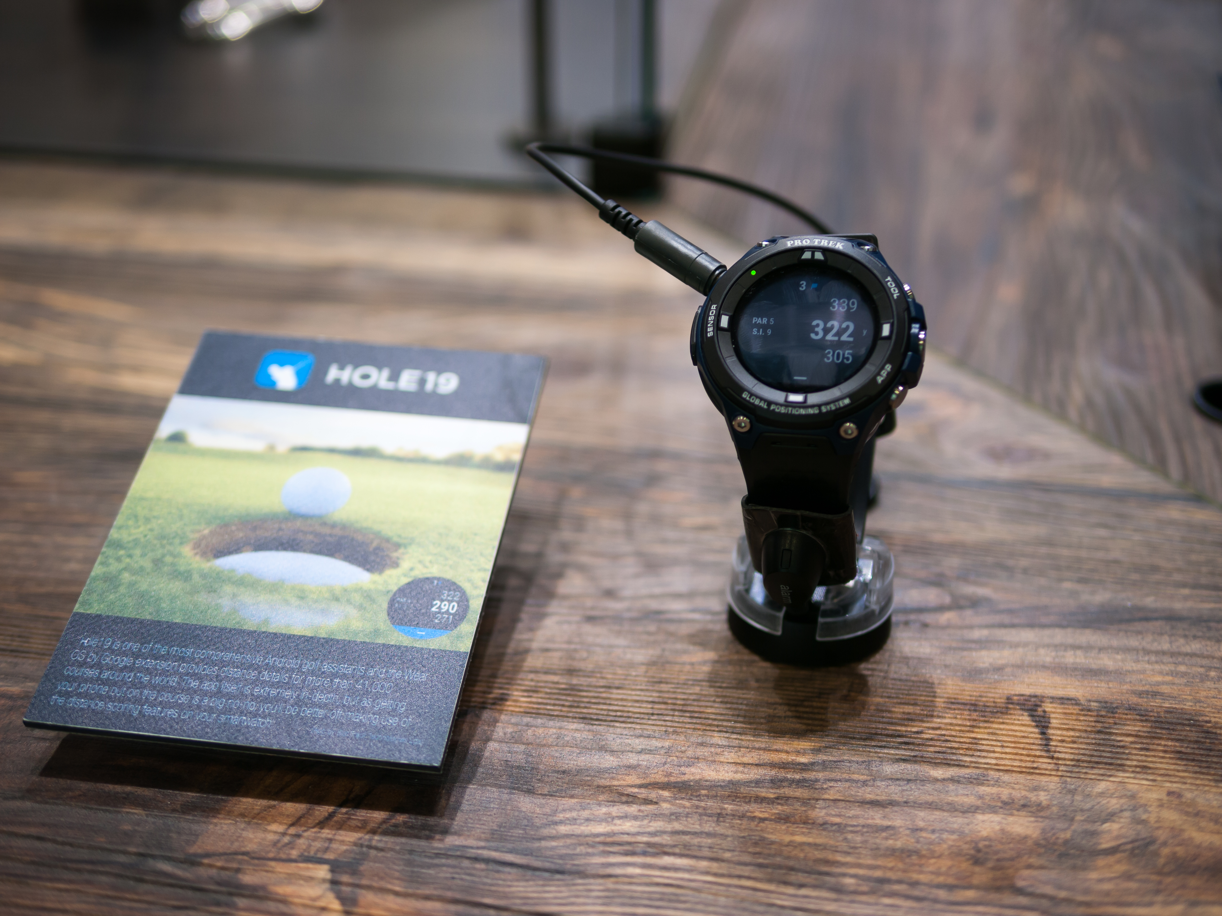 Casio, Internationale Funkausstellung 2018, Berlin